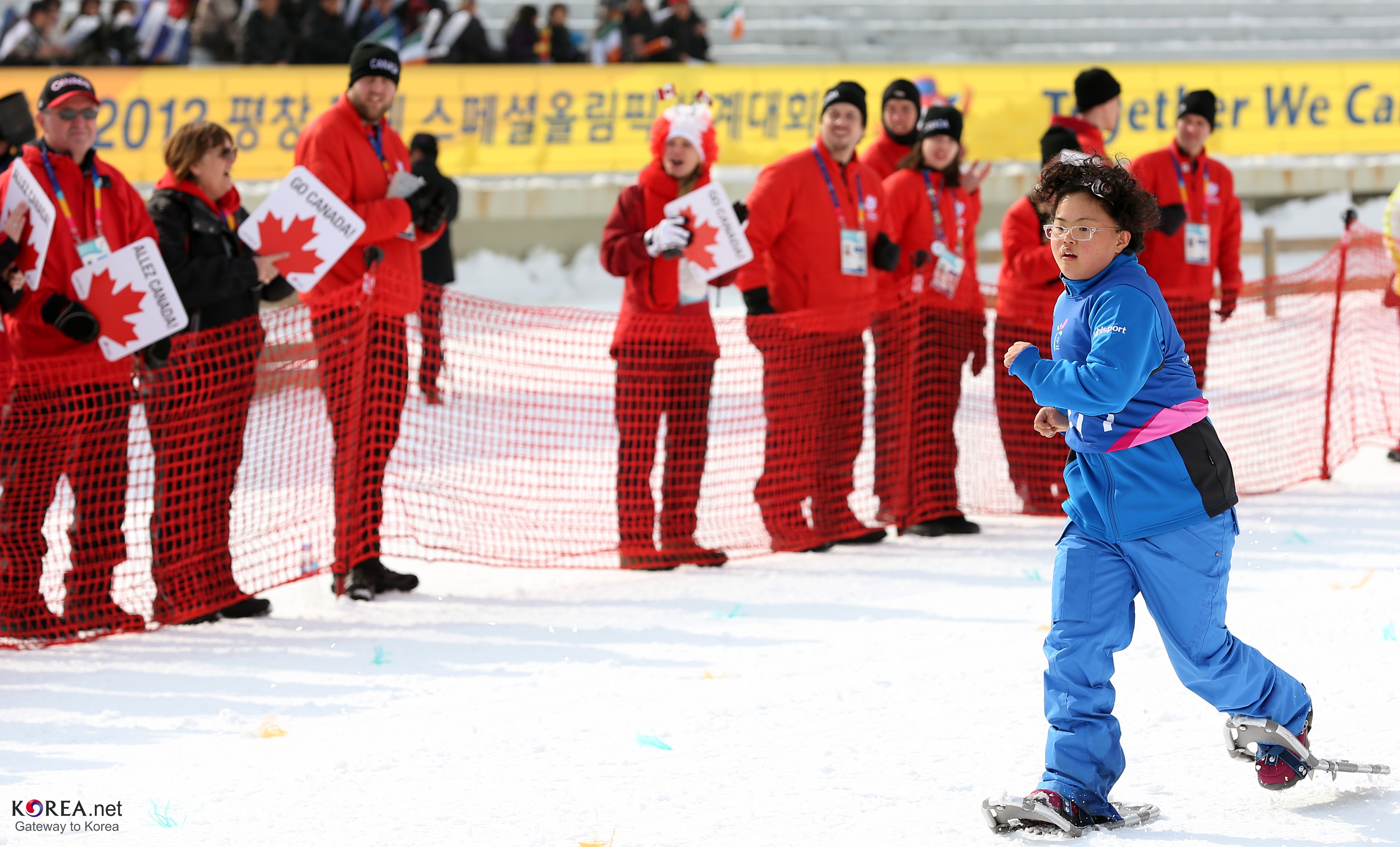 2013 PyeongChang The Special Olympics World Winter Games First Day SnowShoeing PyeongChang, Gangwon-Do 2013.01.30. Ministry of Culture, Sports and Tourism Korean Culture and Information Service Jeon Han 2013 평창 동계 스페셜올림픽 세계대회 대회 1일, 스노우 슈잉 평창, 강원도 문화체육관광부 해외문화홍보원 코리아넷 전한